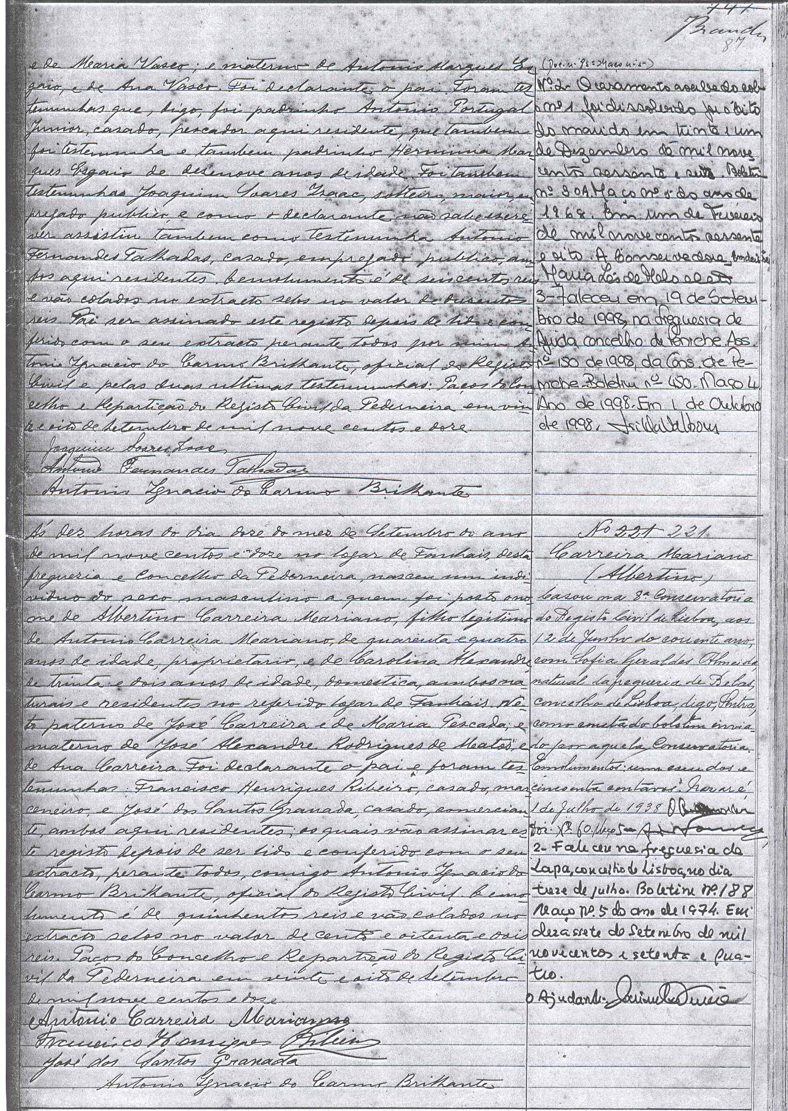 Facsimile of the birth registration document of Albertino Carreira Mariano. Original dated 1912.